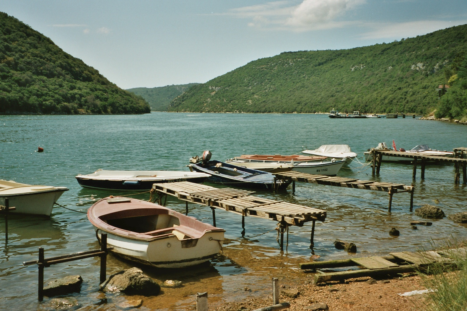 Limski Kanal